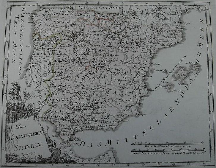 Map of Spain 1790